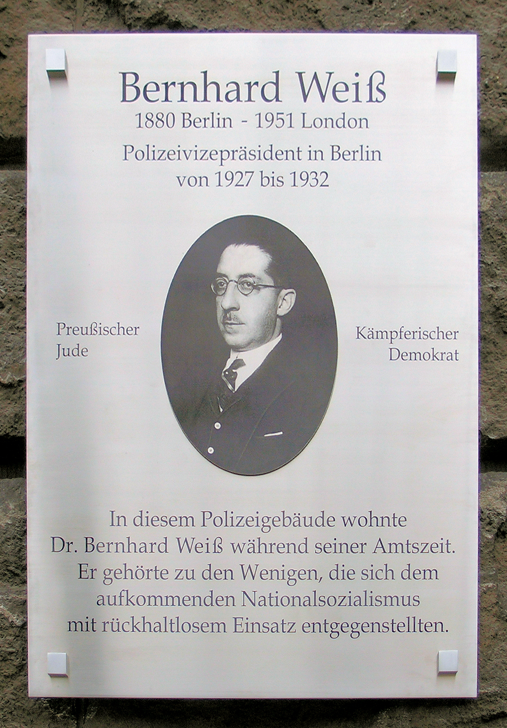 Memorial plaque, Bernhard Weiß, Kaiserdamm 1, Berlin-Charlottenburg, Germany Koordinate:52°30′40″N 13°17′43″E / 52.51111°N 13.29528°E